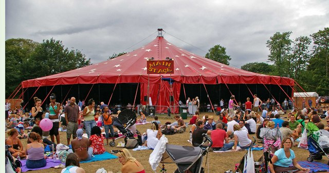 Ealing Jazz Festival This is the main stage marquee at the 2006 Ealing Jazz Festival held for the past 22 years in Walpole Park You can see inside at 271688